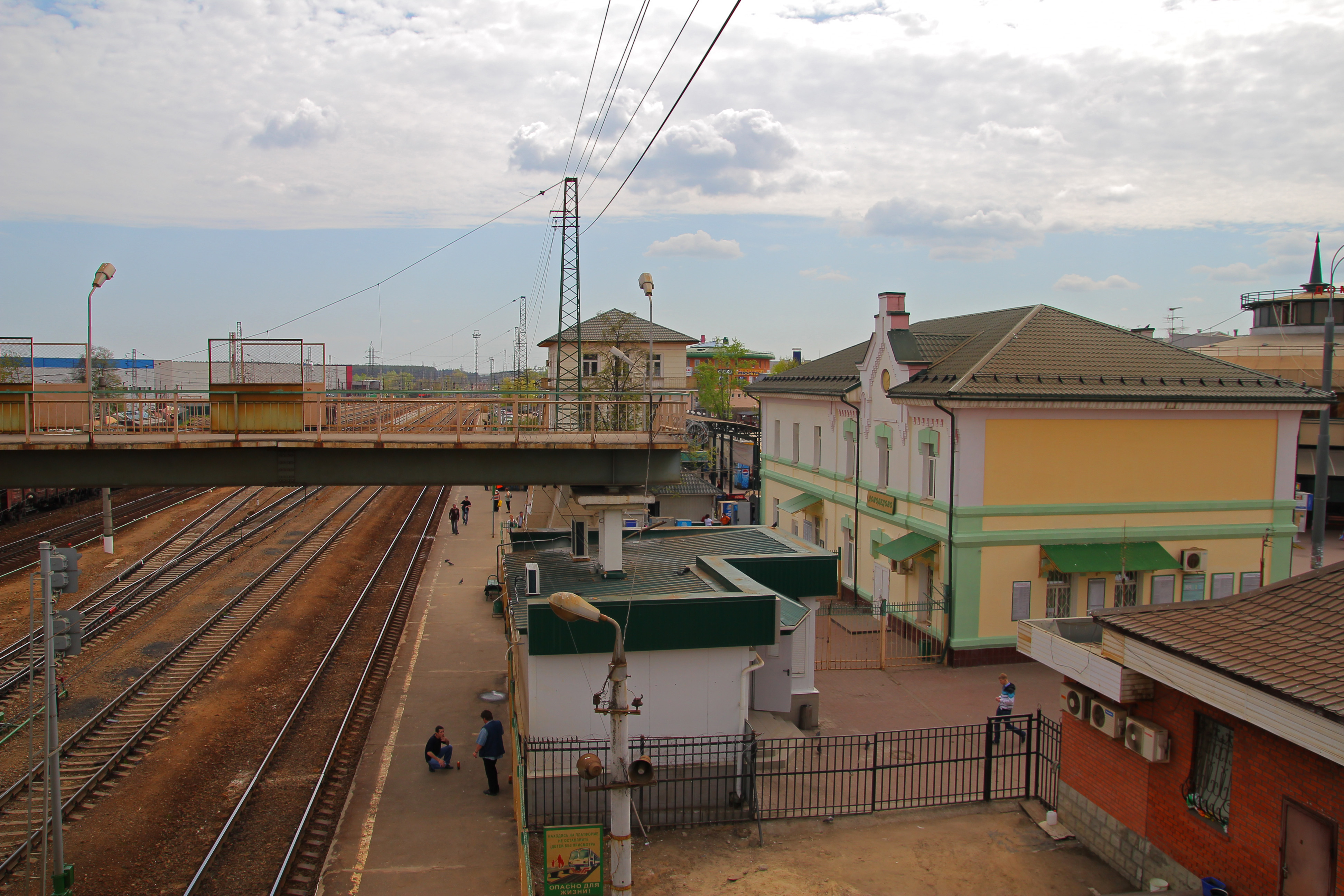 Train station Domodedovo in Moscow Oblast